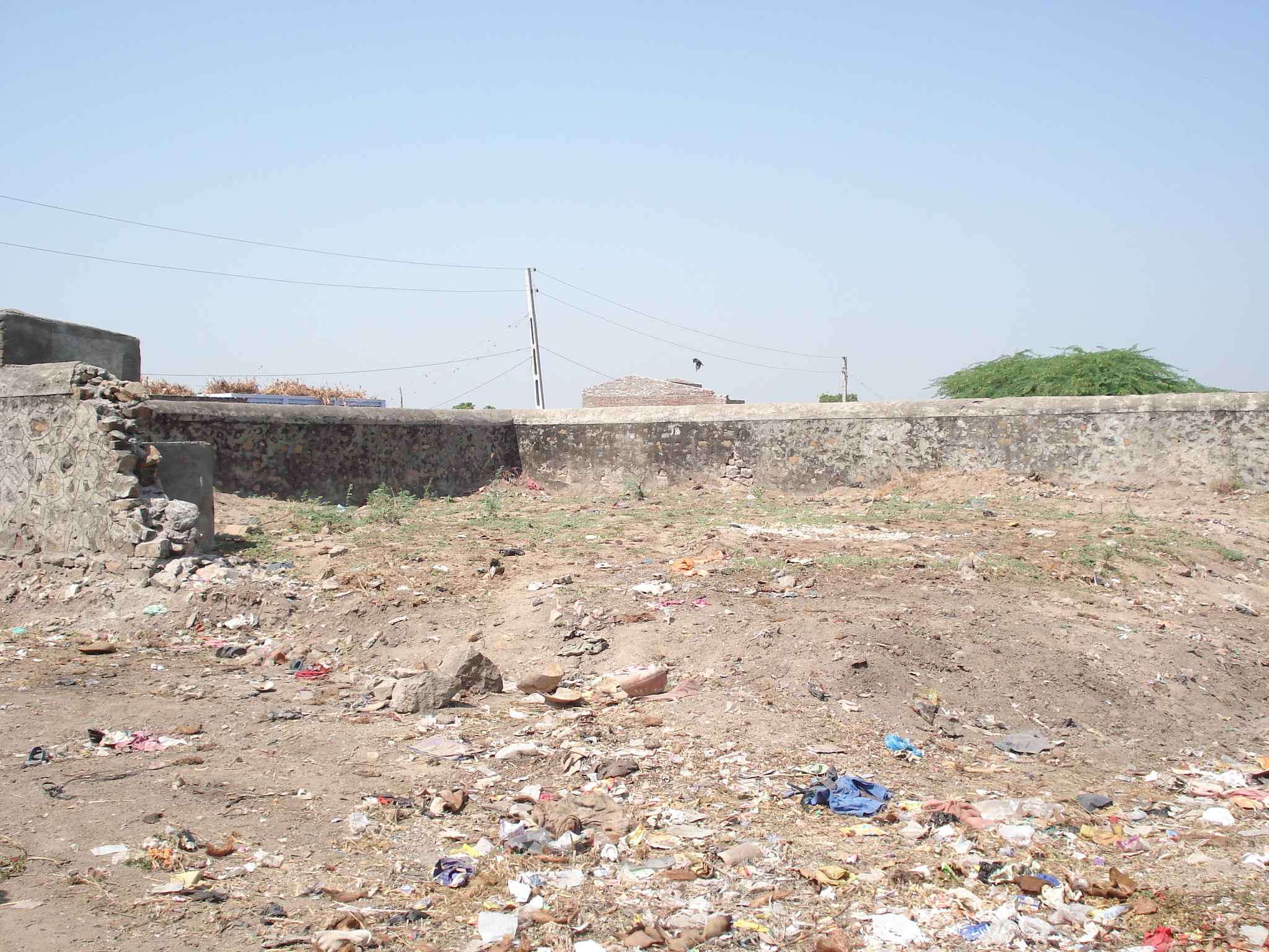 India - town of Palijat in Gujarat state